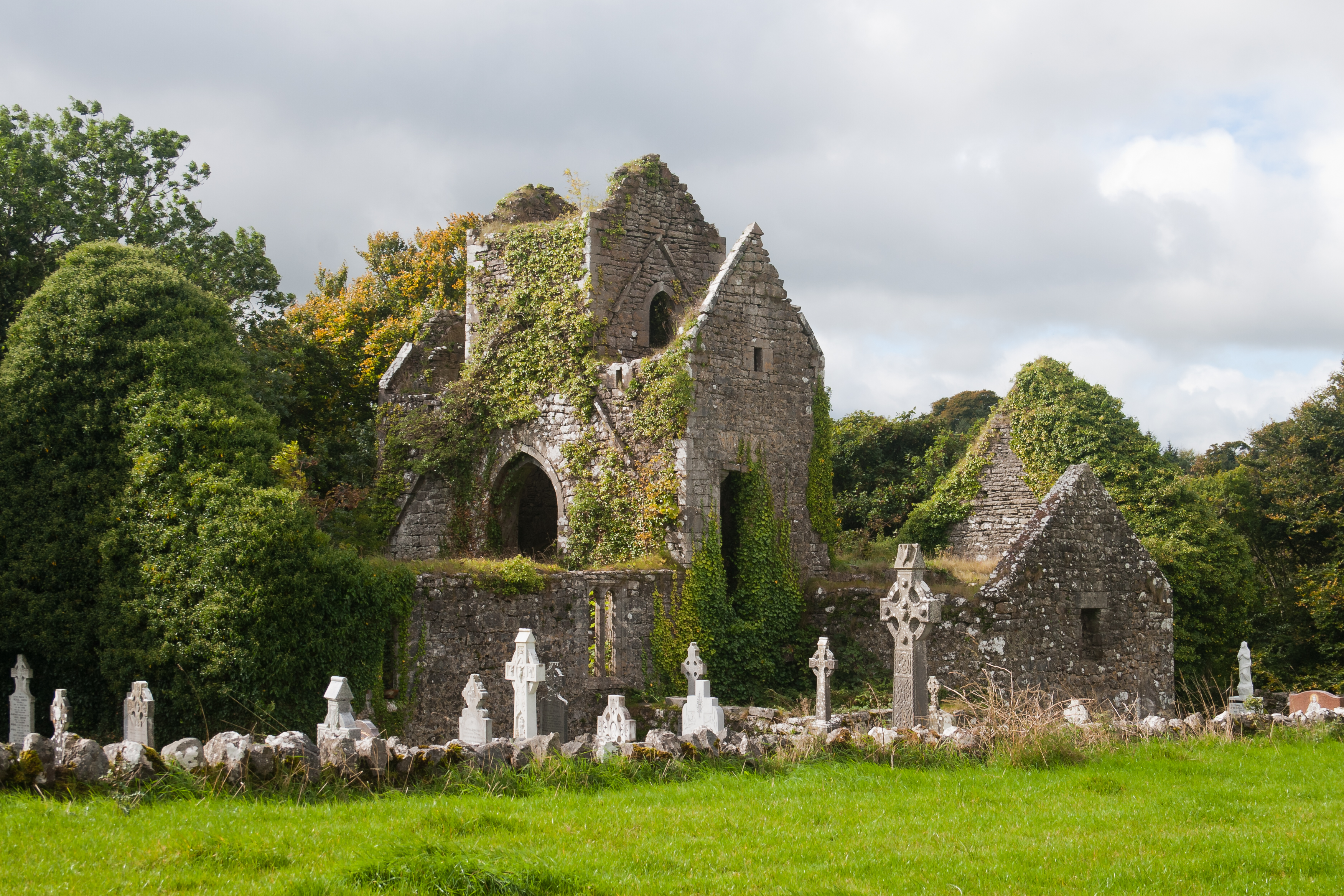 North-east view of Ballindoon Priory.